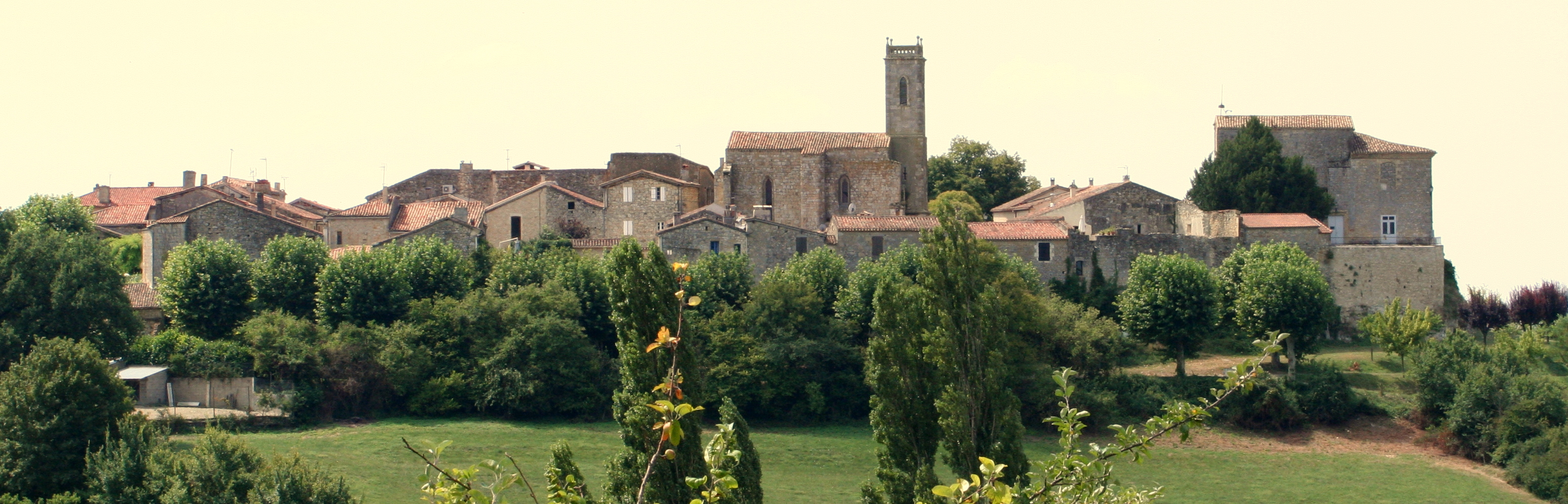 Gasconian village Saint-Orens-Pouy-Petit seen from the north.